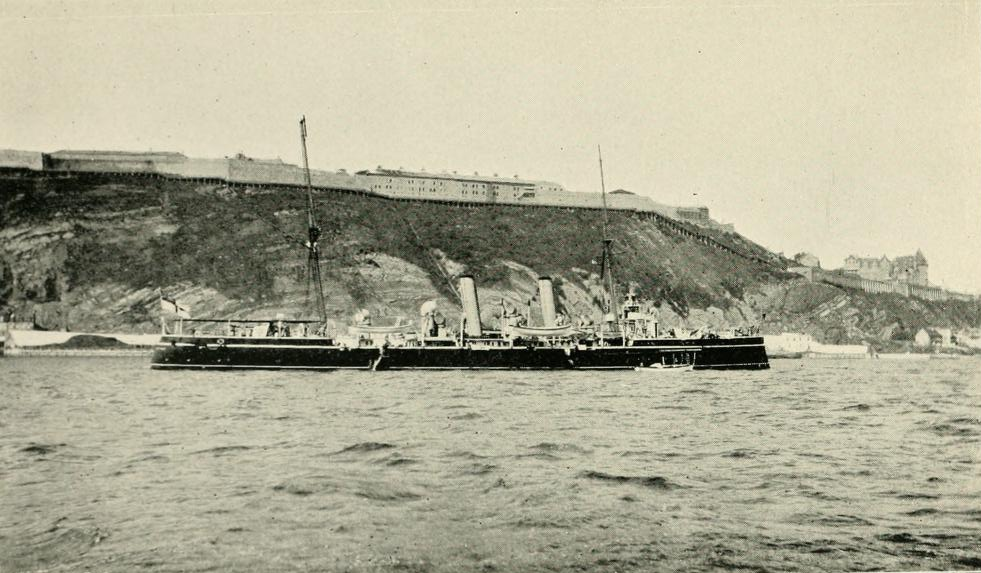 HMS Proserpine 1901, photograph taken during the 1901 royal tour of Canada by Duke and Duchess of Cornwall and York, taken from the book "The Yankee in Quebec" by Anson Albert Gard.